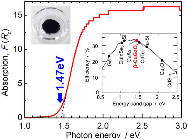 Optical absorption spectrum, F(Rd) of β-CuGaO2 obtained from the diffuse reflection, Rd, using the Kubelka–Munk function. Insets are a picture of powdered β-CuGaO2 and the theoretical conversion efficiency of a single-junction solar cell as a function of the band gap energy based on the Shockley–Queisser limit using the AM1.5G solar spectrum as the illumination source.